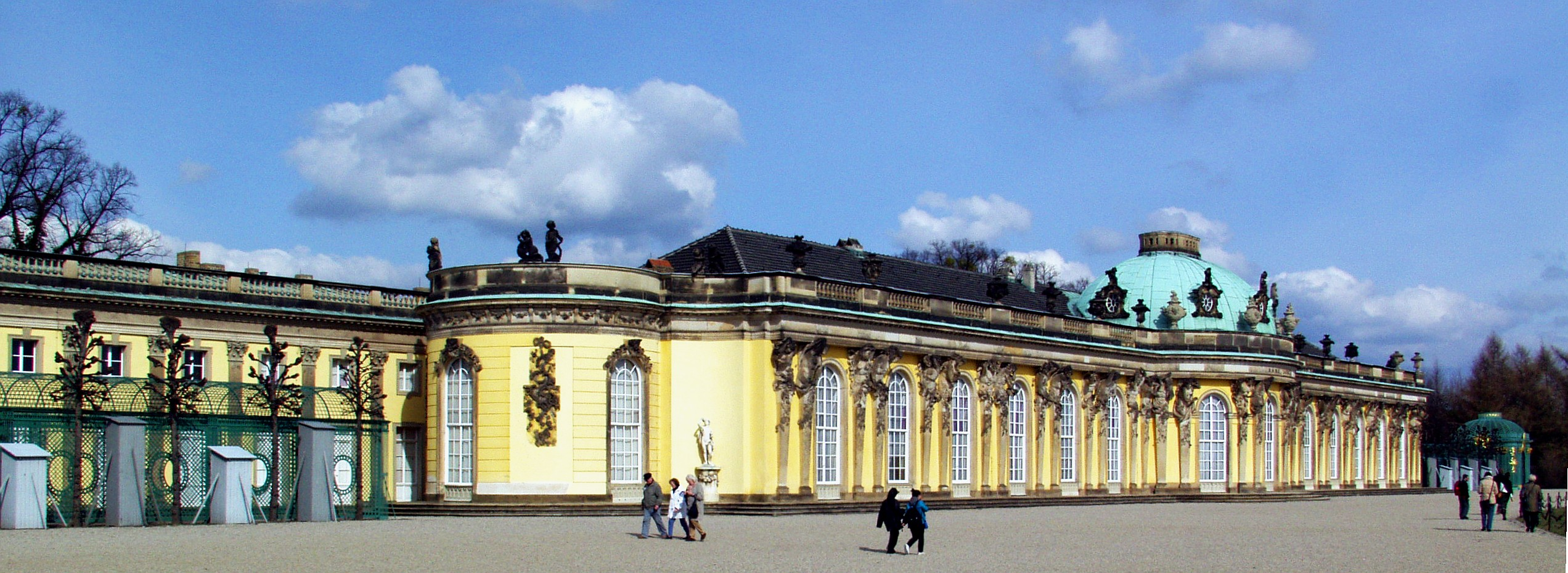 Potsdam (Germany) - Sanssouci Castle